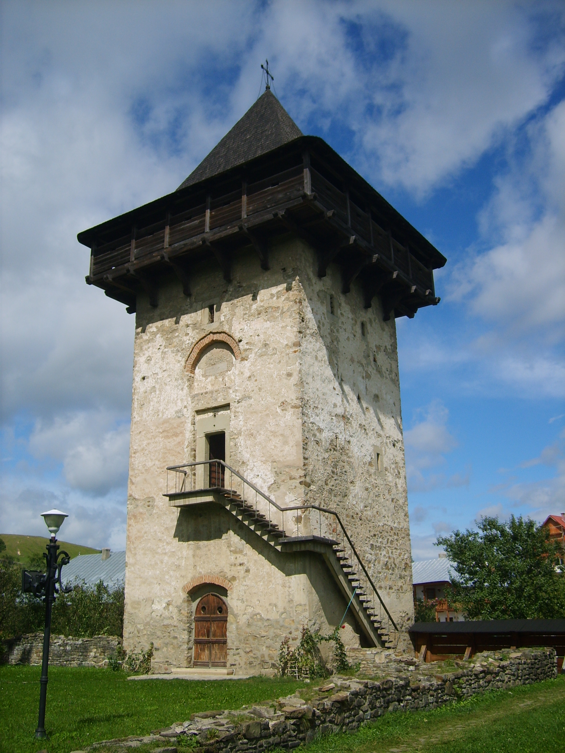 A tower inside the Humor Monastery in Romania